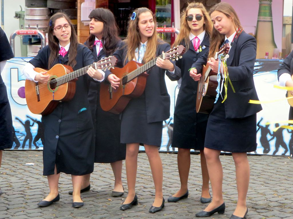 The Tuna Com Elas, a student band from the Associação Académica da Universidade dos Açores (AAUA), performing at a street fair in Ponta Delgada on Sao Miguel Island, Azores.